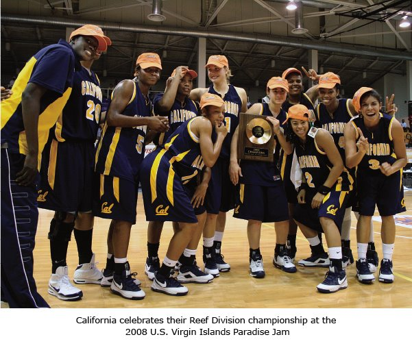 California Team photo 2008, Paradise Jam Tournament winner